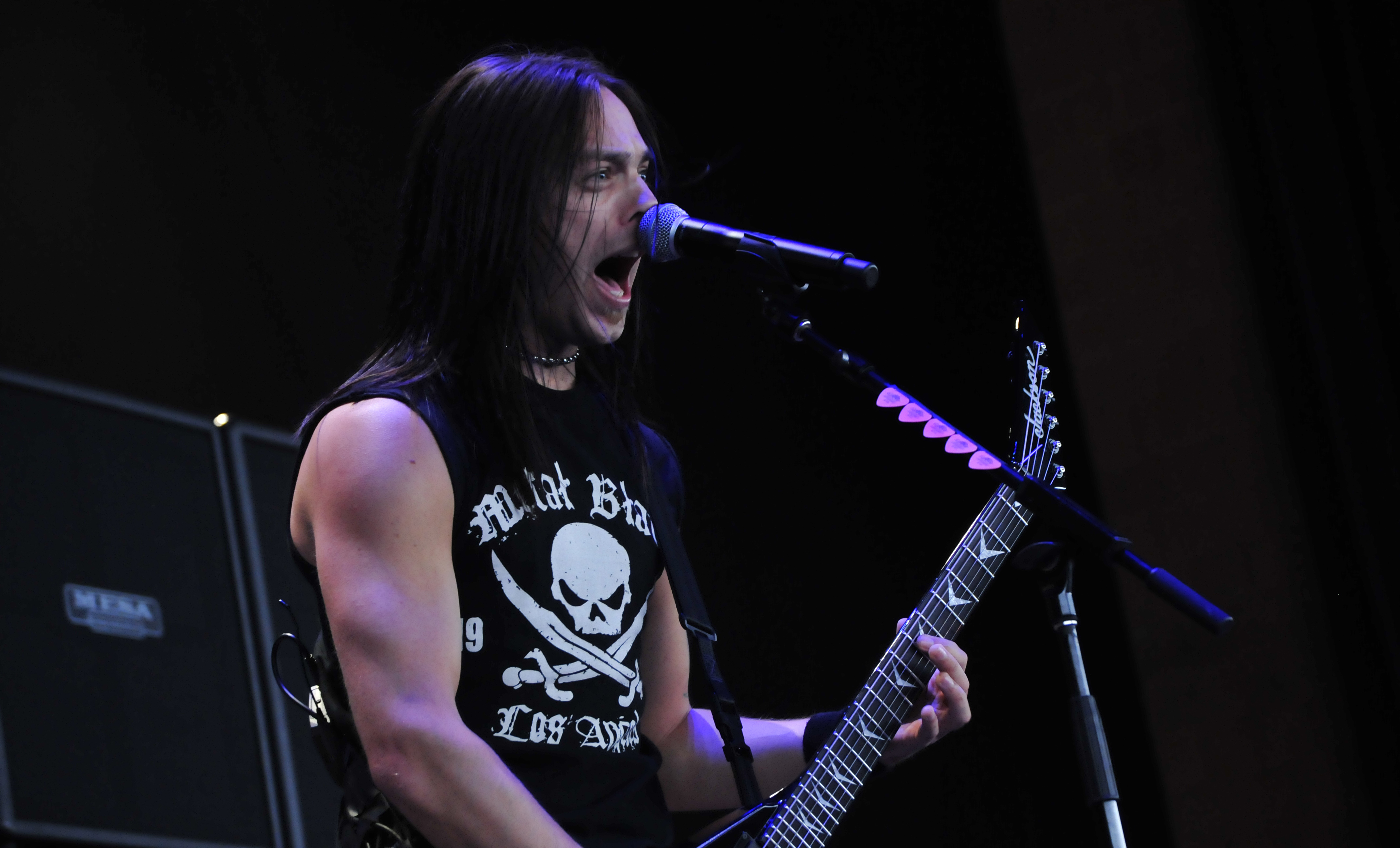 Bullet For My Valentine